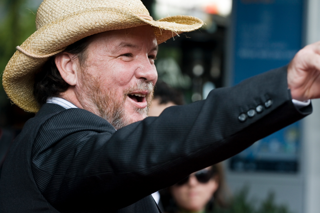 At the premiere of "Trigger", during the Toronto International Film Festival, 2010.